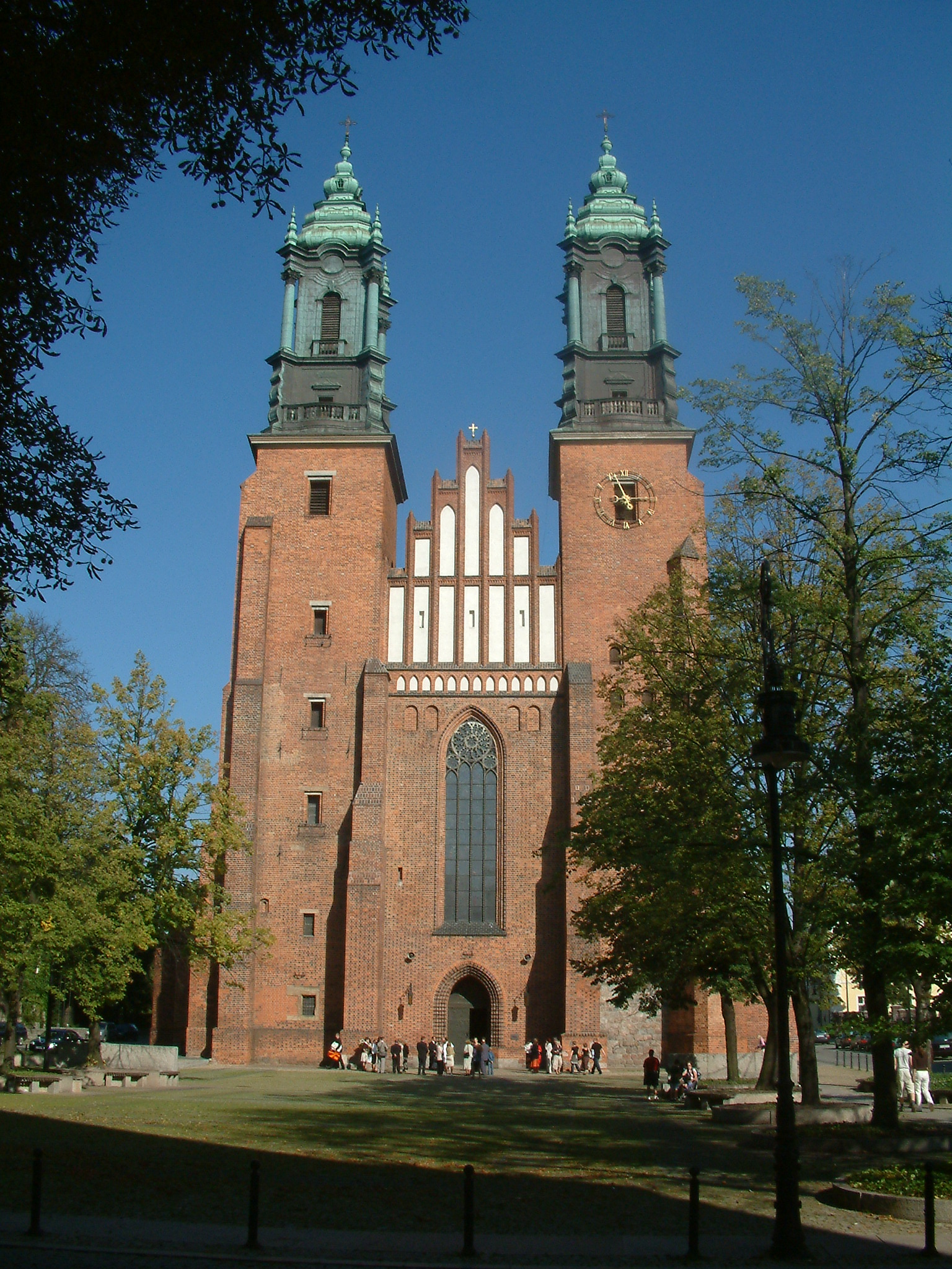 Fasade of Archicathedral Basilica in Poznań